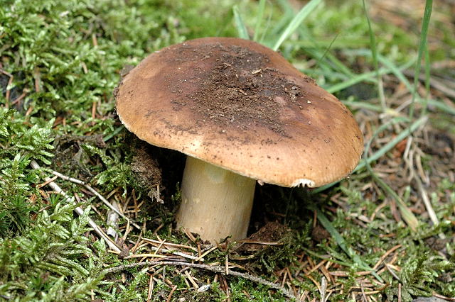 Russula mustelina from Commanster, Belgium. The determination of the species shown in this picture has been verified.